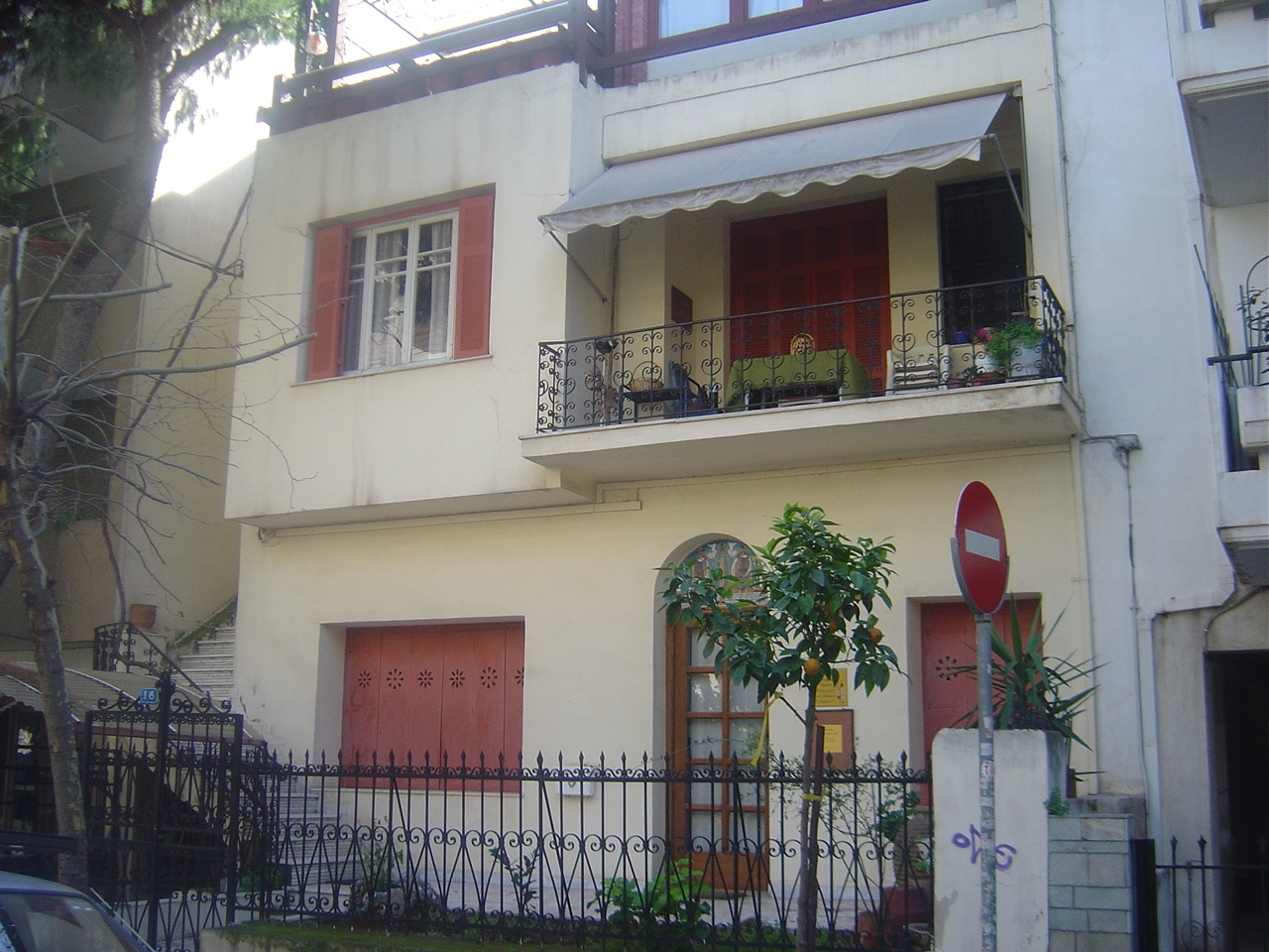 Greek painter's Fotis Kontoglou house in Athens